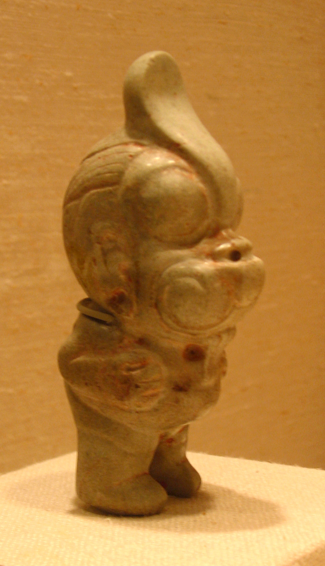 Olmec Eagle Transformation Figure, 10th–6th century B.C. Jade (albite), cinnabar. Height 4.5 in. (11.4 cm). Olmec "transformation figurine", thought to represent the transformation of a shaman into an eagle. Photo by Madman, at the Metropolitan Museum of Art